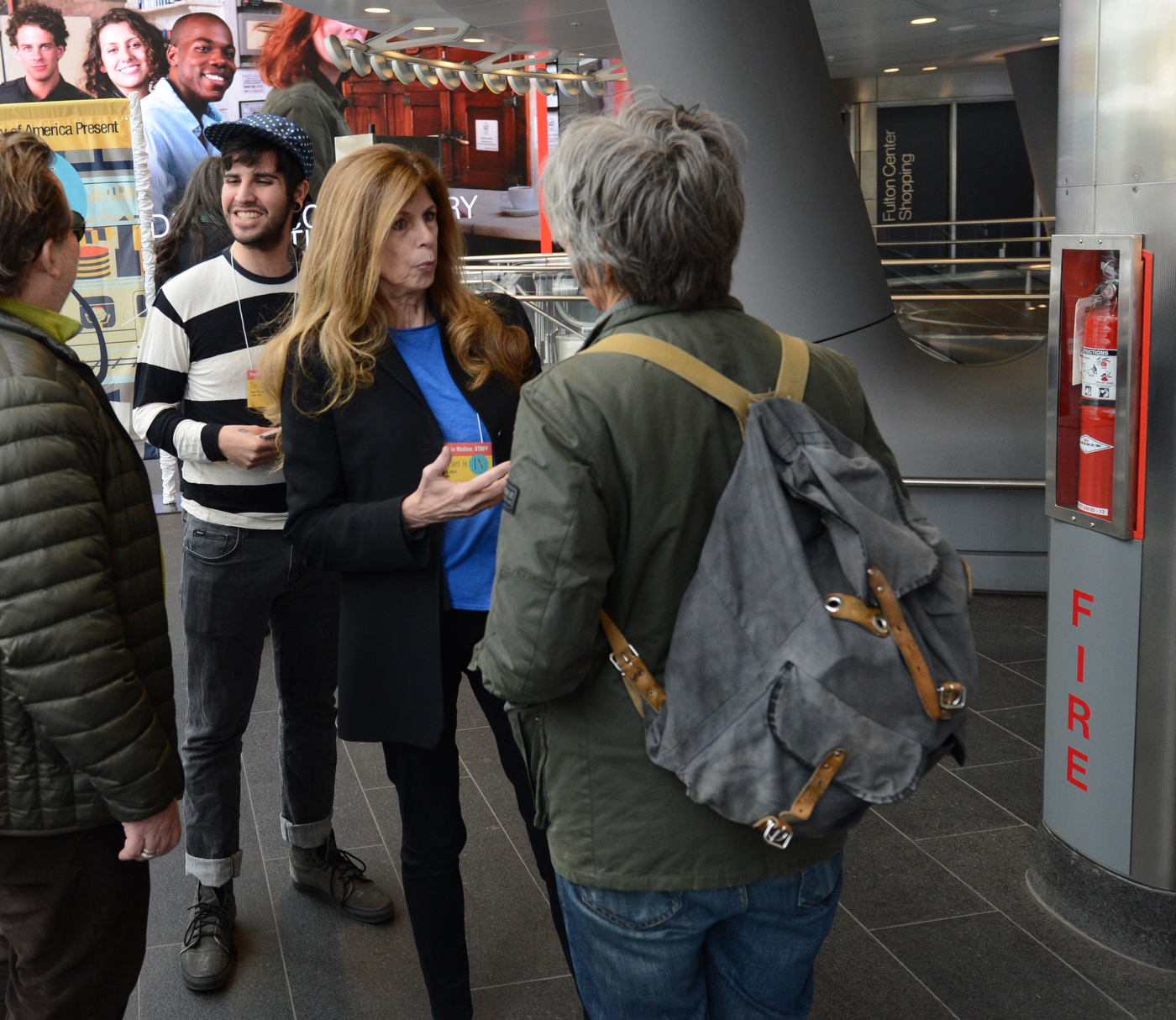 In celebration of National Poetry Month, MTA Arts & Design and the Poetry Society of America present Poetry in Motion: The Poet Is In at Fulton Center on Thu., April 23, 2015. New York State Poet Laureate Marie Howe and many others wrote personalized poems for the public while Music Under New York artists performed. Marie Howe. Photo: Marc A. Hermann / MTA New York City Transit